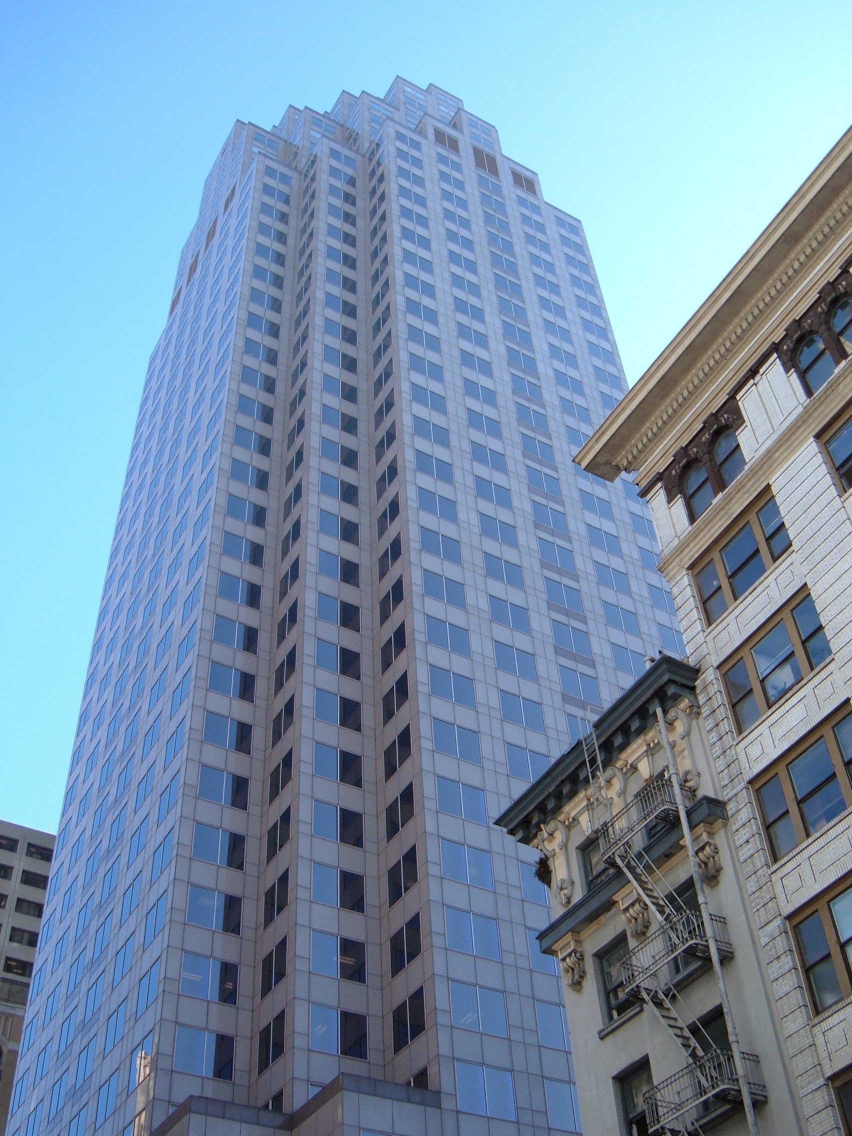 The front of 333 Bush Street in San Francisco.